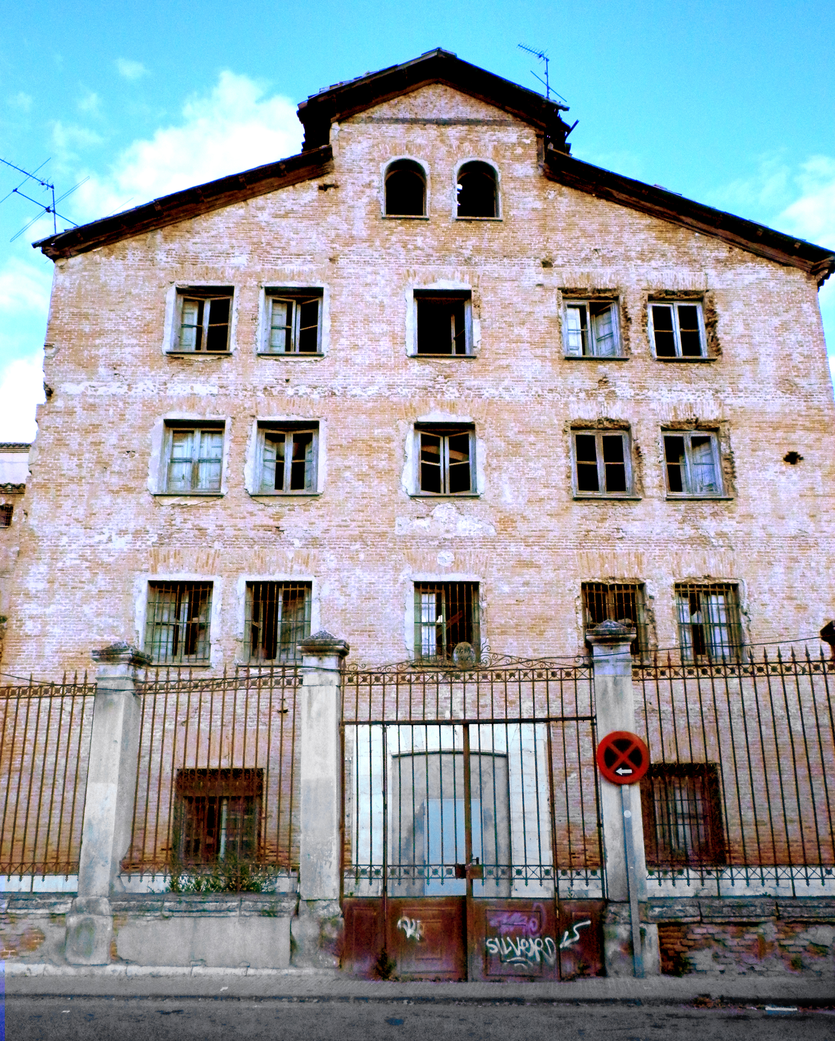 The former women's prison (known as "La Galera"). Alcalá de Henares, Community of Madrid, Spain